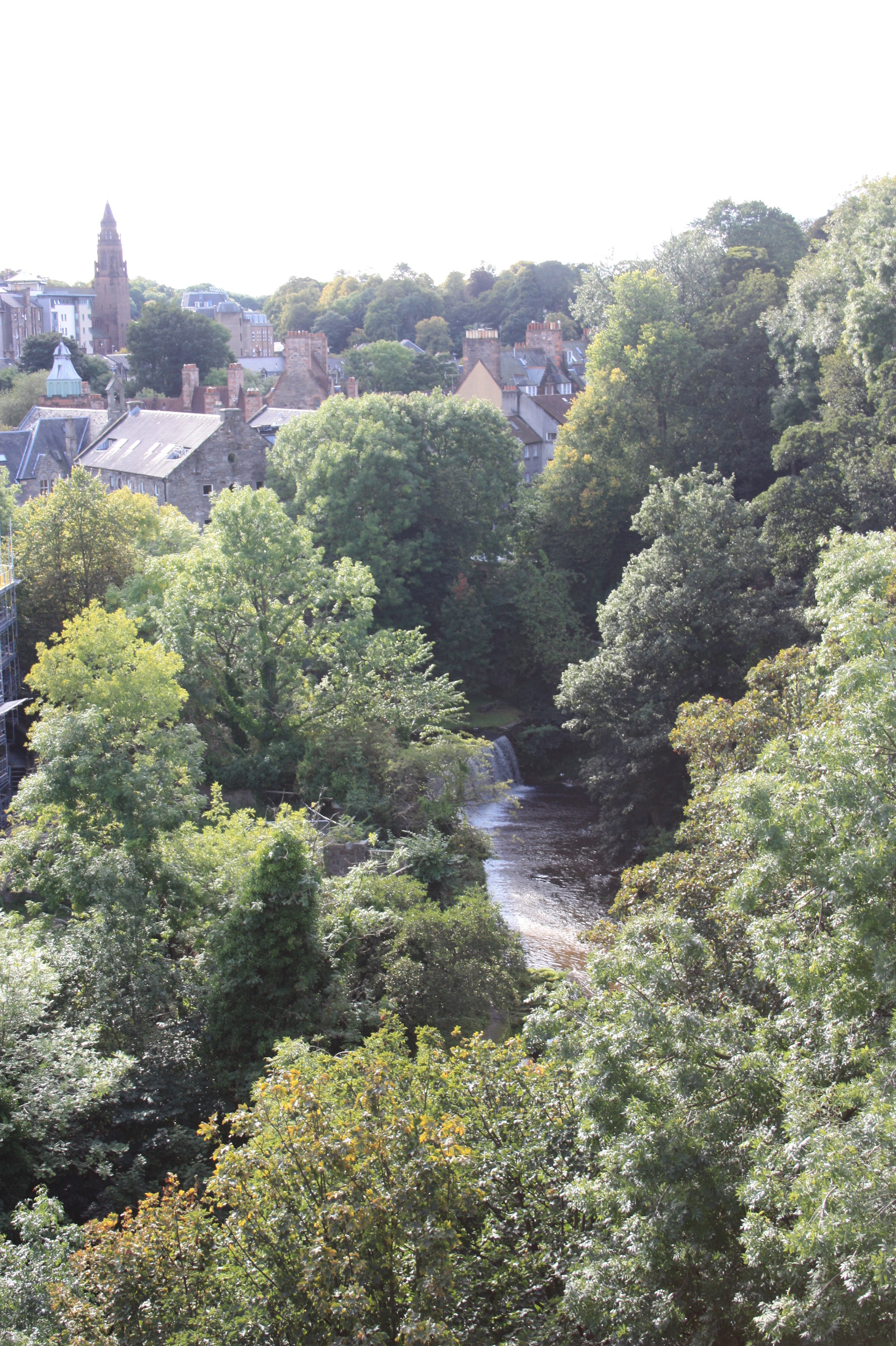 Dean Village as seen from Dean Bridge over the Water of Leith